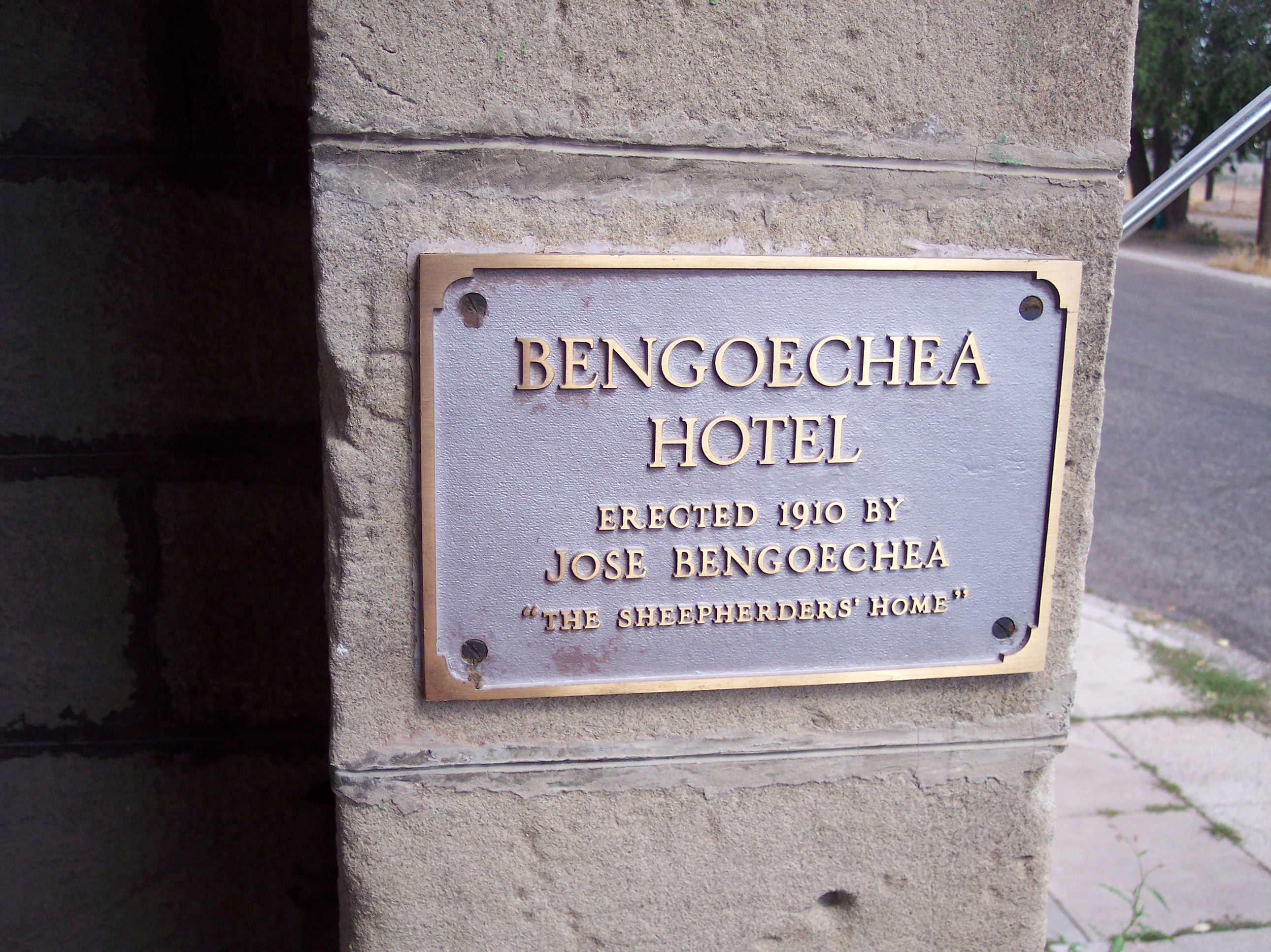 Bengoechea Hotel Plague